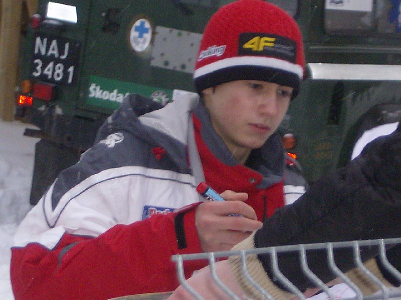 ski jumper Jakub Kot from Poland during the World Cup in Zakopane on 27-1-2008